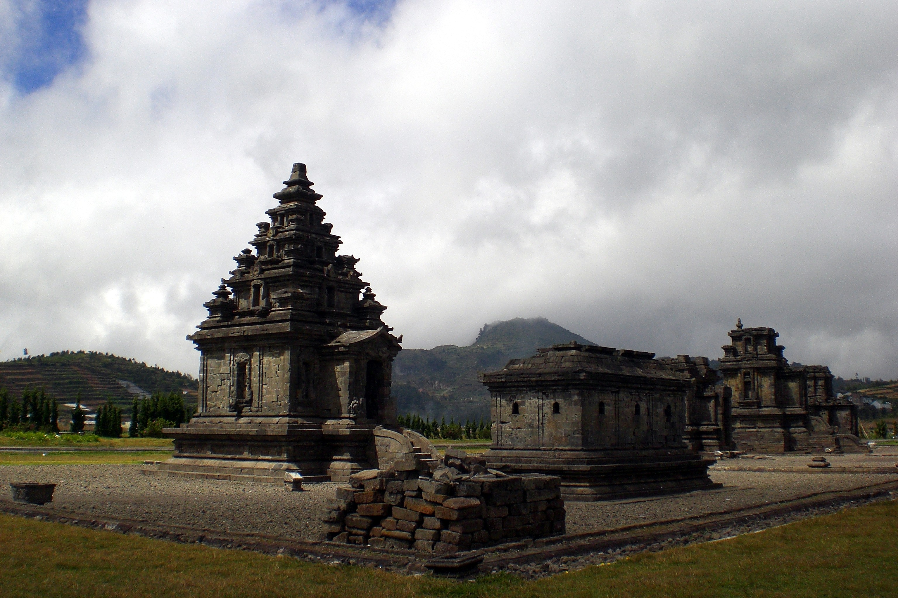 temples